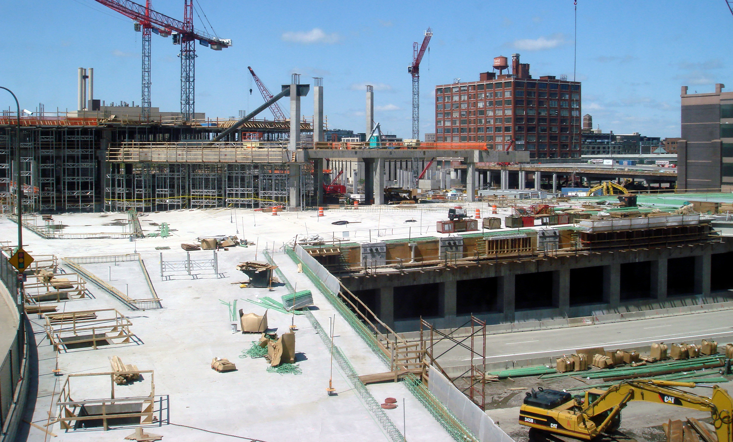 The site of the under-construction Twins Ballpark, almost a year (355 days) after construction commenced on May 21, 2007. Construction of the main stadium structure had begun, the concrete pedestrian bridges over the freeway had begun (a larger bridge to the right is not visible). The location is bordered by 7th St. N (overpass on left), the Hennepin Energy Recovery Center (HERC) (building with smokestacks at rear left as well as the similarly colored small building to the right of it), 5th St. N (overpass on the right side), and the 394 exits (foreground). This photo was taken almost a year (357 days) after this photo of the exact same location/position.